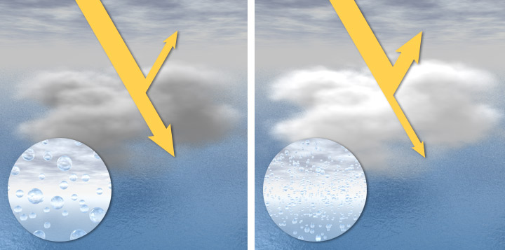 This image helps to understand the "aerosol indirect effect". Clouds in clean air are composed of a relatively small number of large droplets (left). As a consequence, the clouds are somewhat dark and translucent. In air with high concentrations of aerosols, water can easily condense on the particles, creating a large number of small droplets (right). These clouds are dense, very reflective, and bright white. (description by NASA)